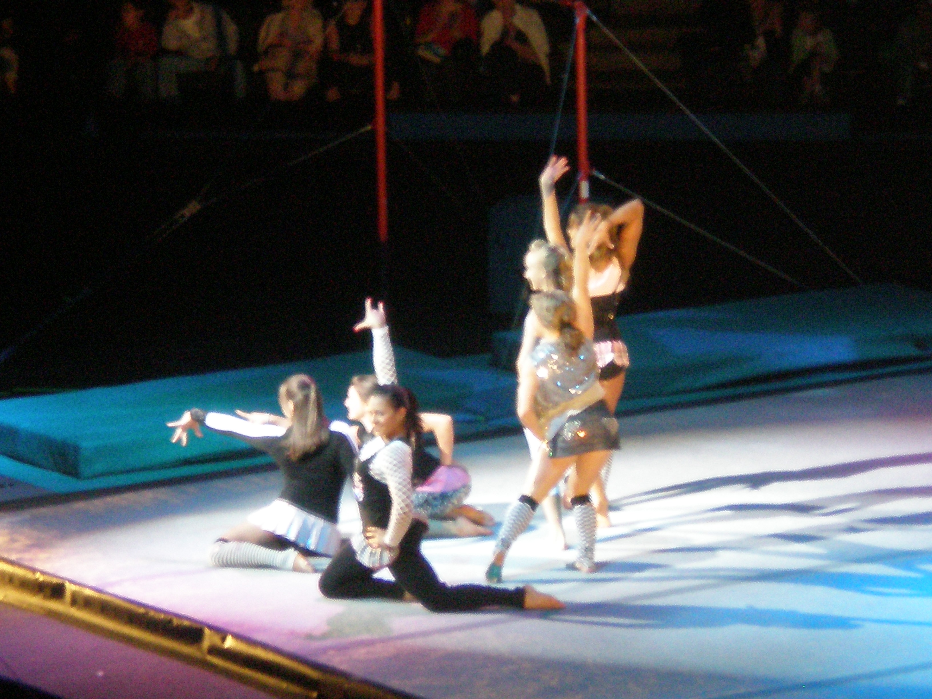 The female cast of the Tour of Gymnastics Superstars performing at HP Pavilion in San Jose, California.